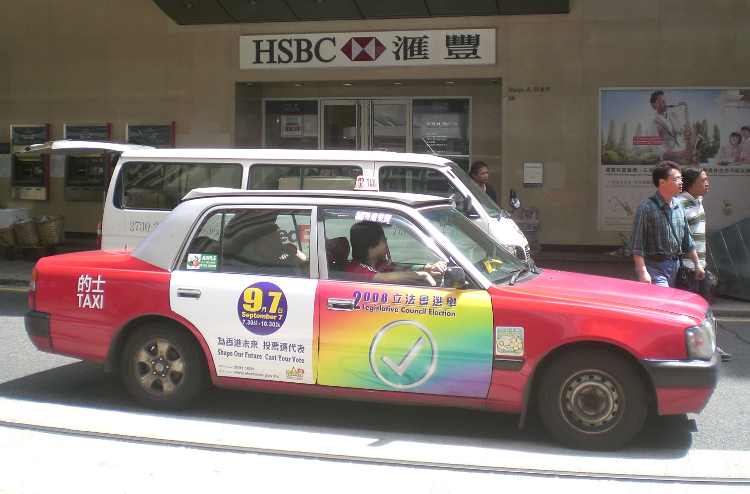 2008年香港立法會選舉之流動廣告宣傳zh:投票日